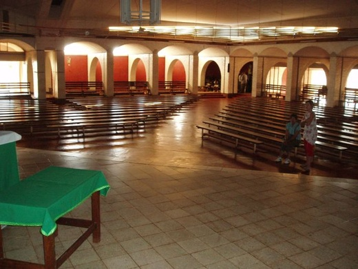 St. John the Apostle Cathedral in Kasama, Zambia.